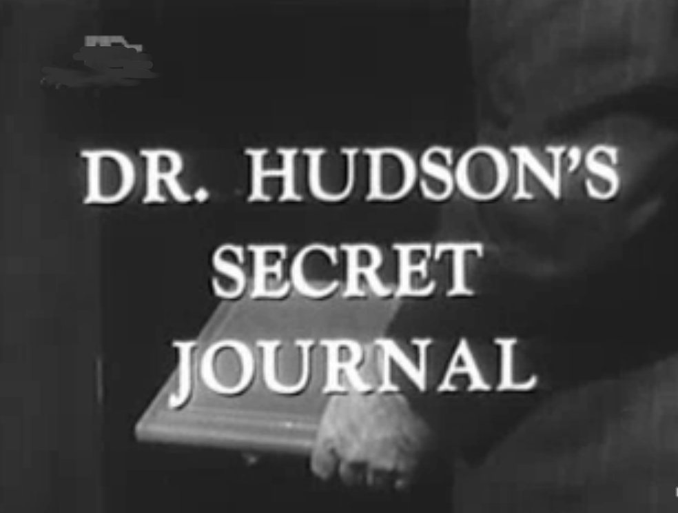 Ill-fated 1950's Television program called "Dr. Hudson's Secret Journal", episode called "Dr. Means Surgery". The show lasted 78 episodes. It was a light drama based on the book of the same name. Starring John Howard, directed by Peter Godfrey. Screen capture showing the title sequence, as the Dr. removes files from his safe. 00:38